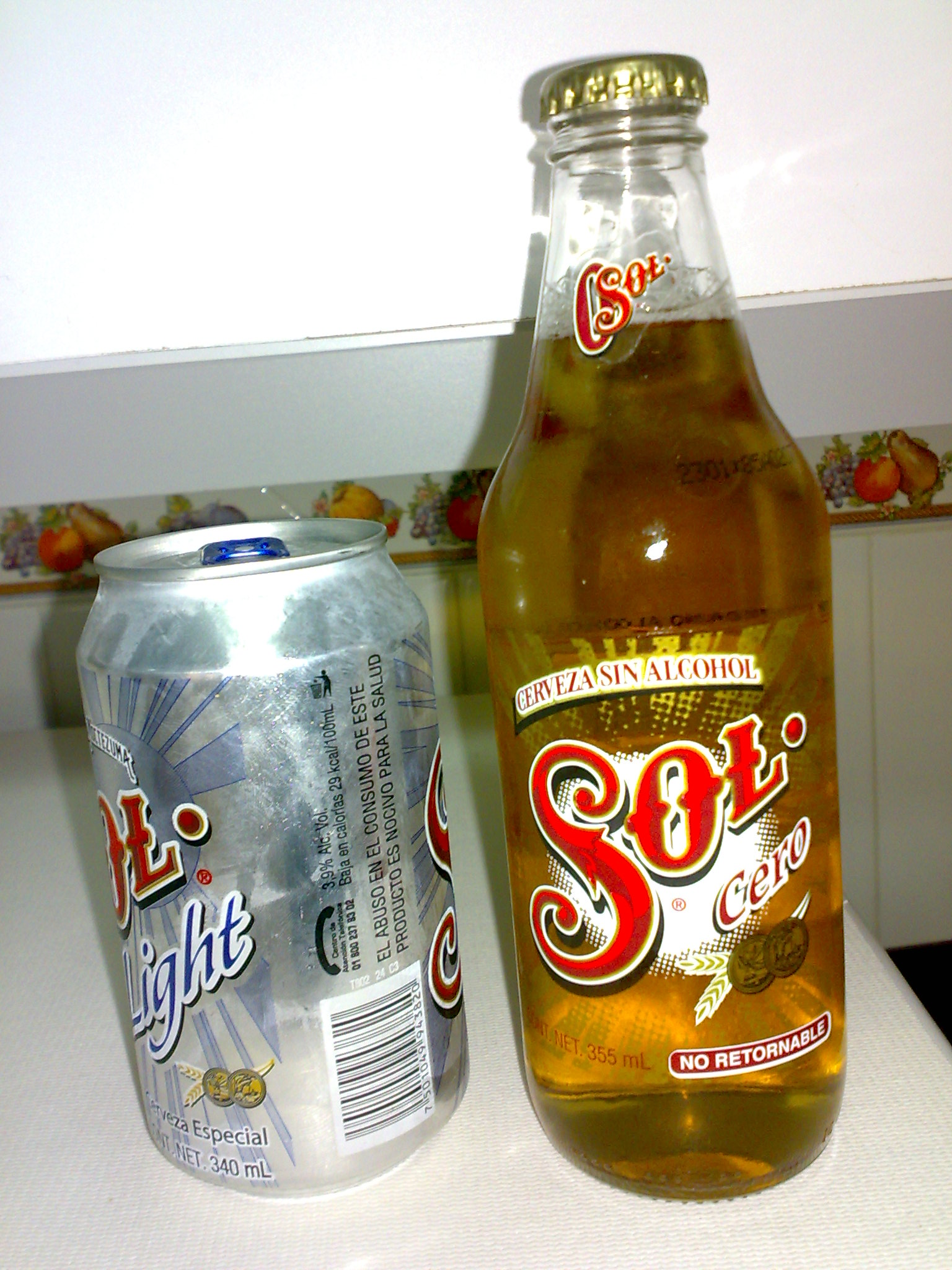 Sol light (low calory beer) and Sol cero (non alcoholic beer)